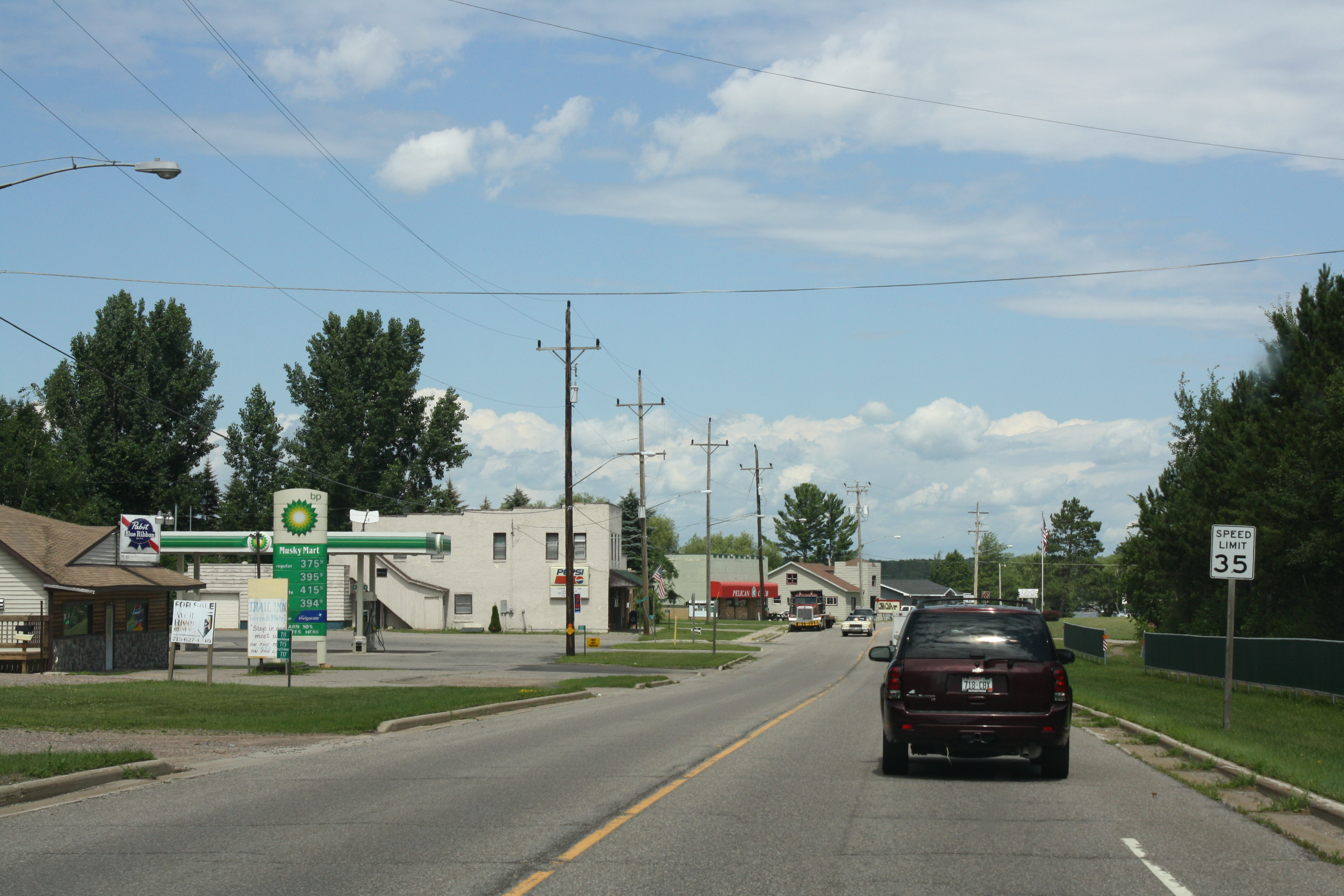 Looking north at downtown Pelican Lake, Wisconsin on U.S. Route 45.